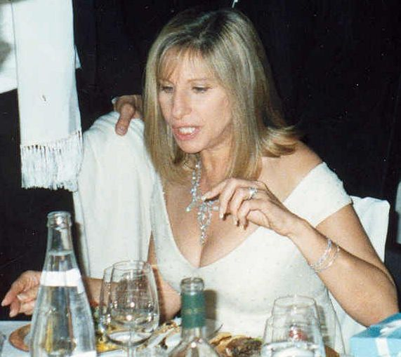 Streisand at Governors' Ball following 1995 Emmys